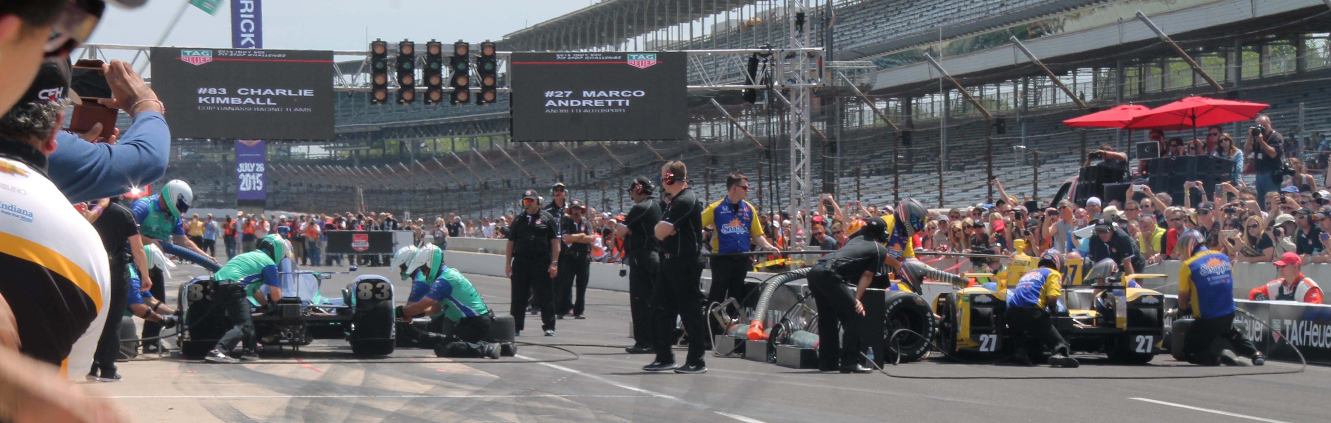 Kimball versus Andretti's teams during the Pit Stop Challenge at Carb Day at the Indianapolis Motor Speedway